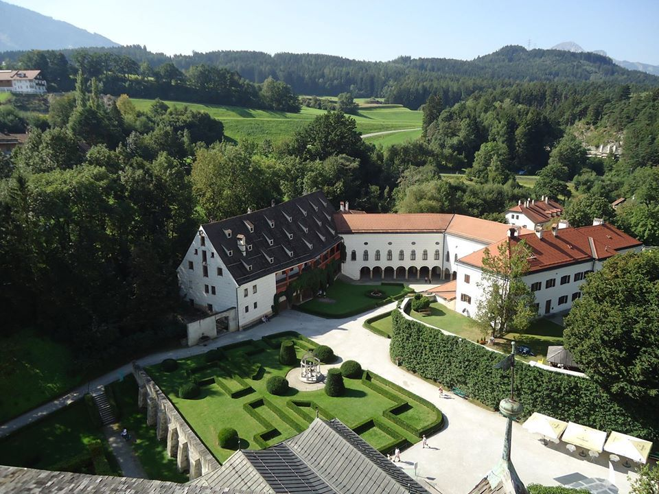 The Lower Castle of Ambras Castle: The oldest museum in the world with "Kornschütt" (left) and three Armouries.